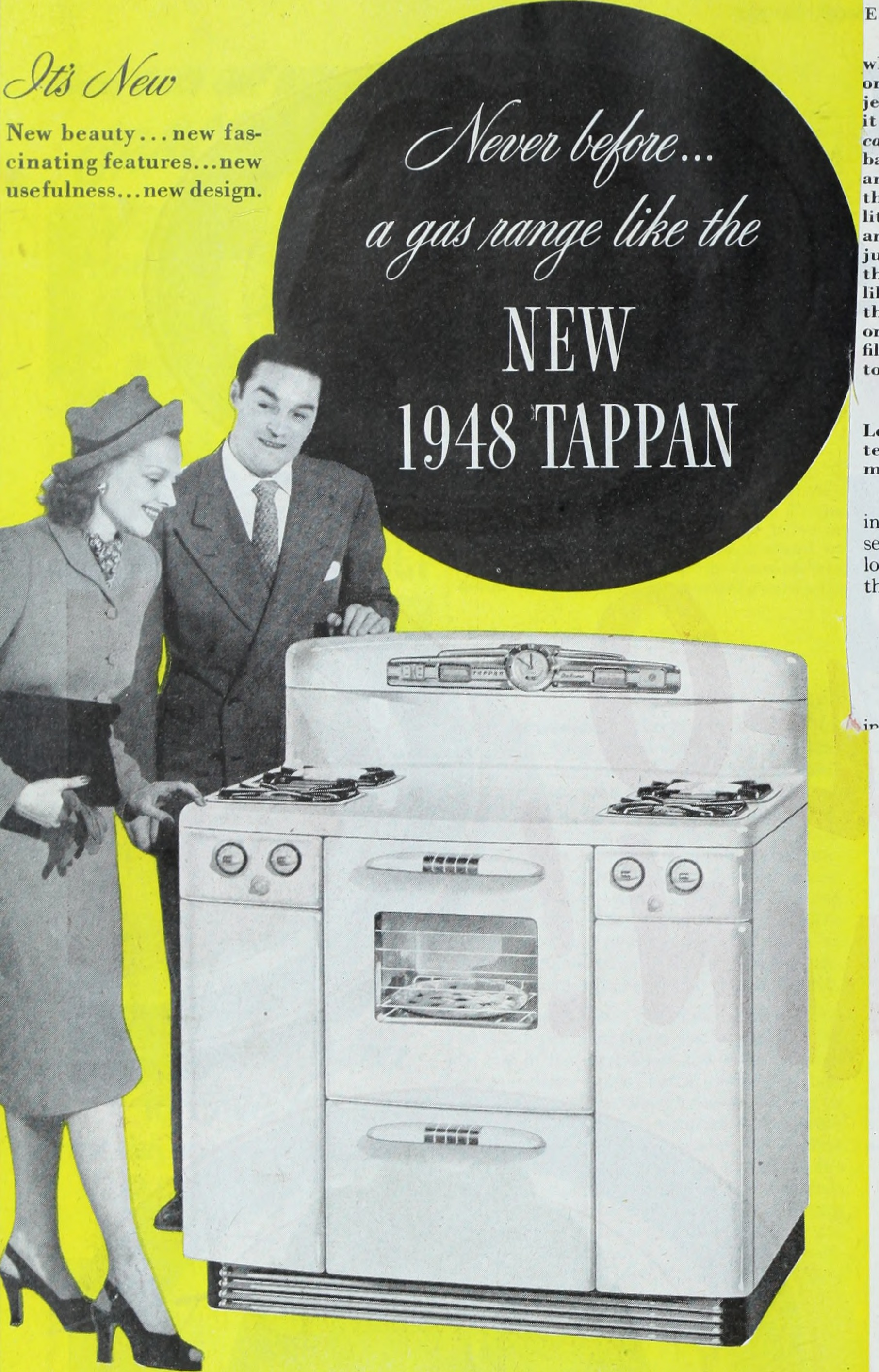 Title: The Ladies' home journal Year: 1889 (1880s) Authors: Wyeth, N. C. (Newell Convers), 1882-1945 Subjects: Women's periodicals Janice Bluestein Longone Culinary Archive Publisher: Philadelphia : (s.n.) Text Appearing Before Image: New beauty... new fas-cinating features...newusefulness... new design. Text Appearing After Image: '